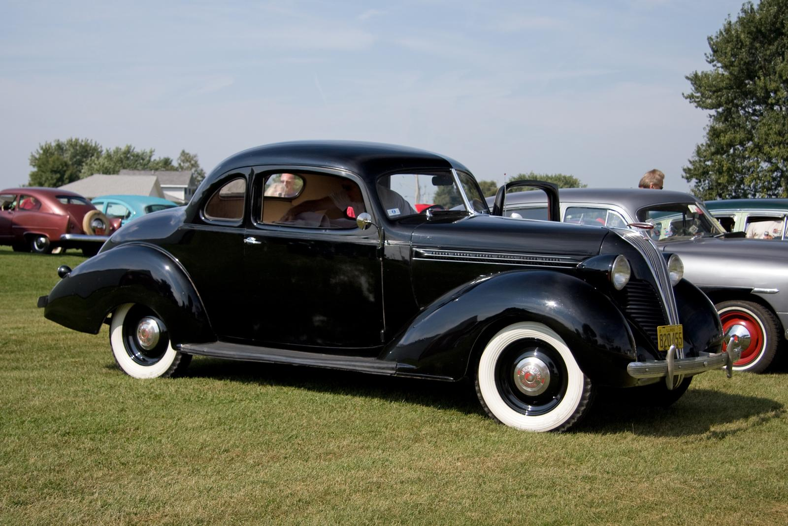 (Sublette Car show and Hudson Meet 2009)